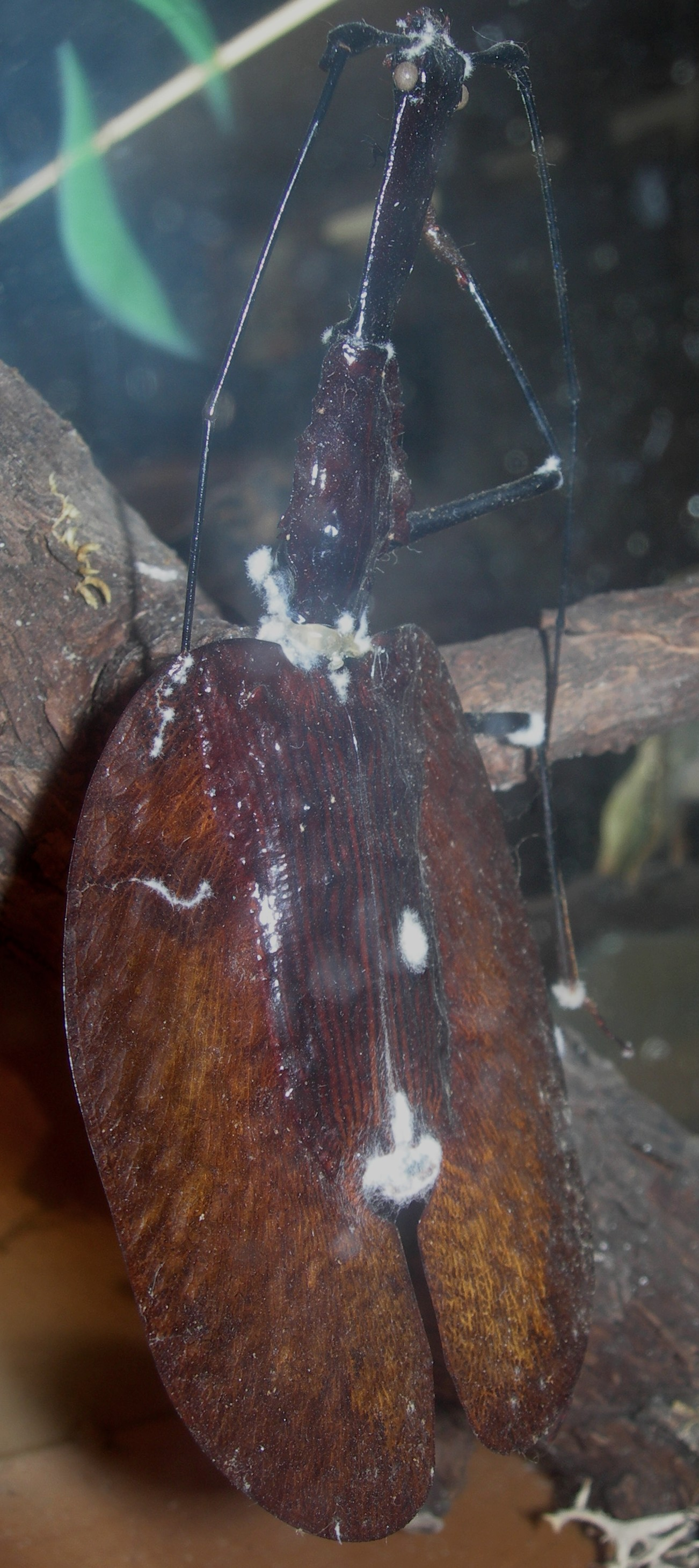 mounted Mormolyce (phyllodes?)